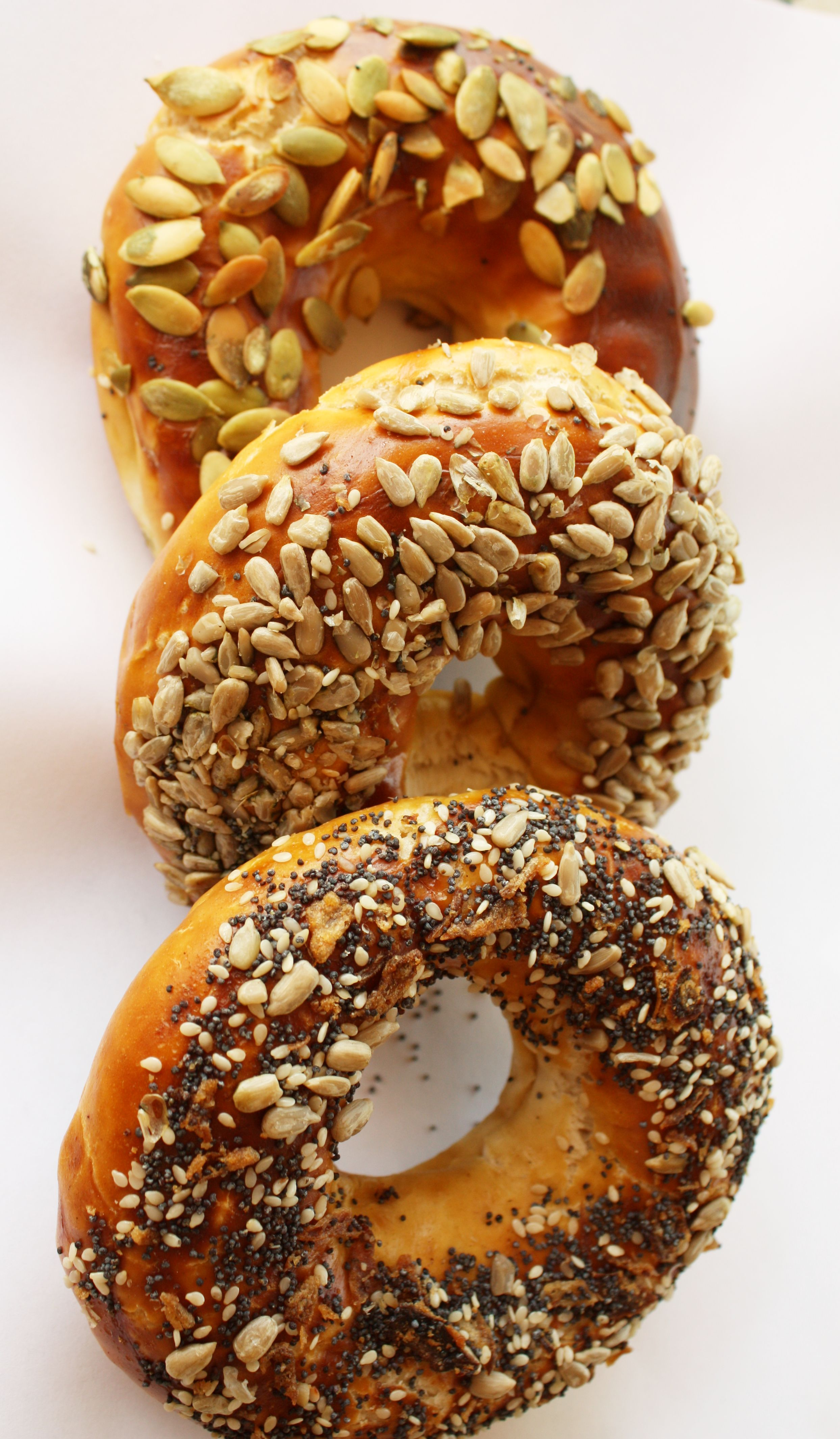 Martinifglas; Cocktailglas